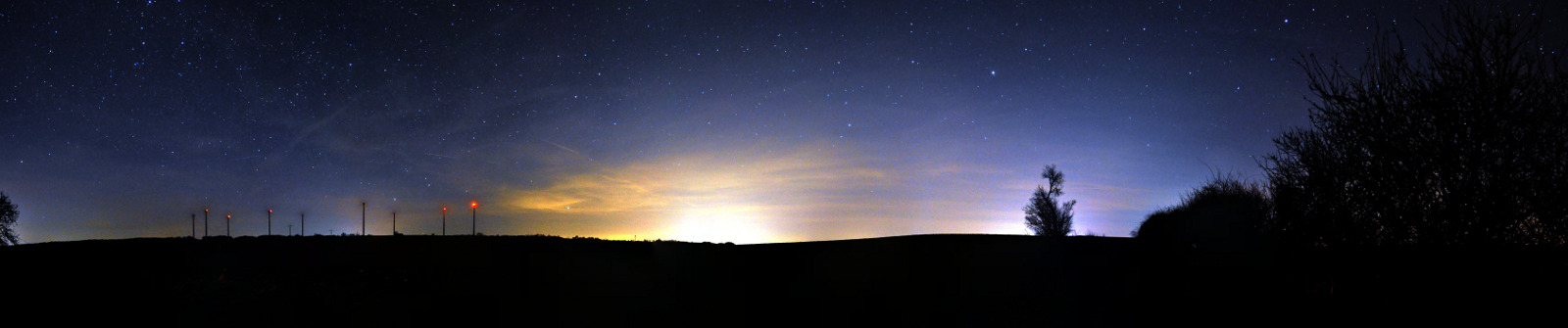 Strong light pollution above the german city Jena, view from Bucha. Dense clouds above the city reflect the scattered light and express the visual effect. In the middle of the image there is a city center, to the right - south parts of the city (Winzerla, Lobeda)